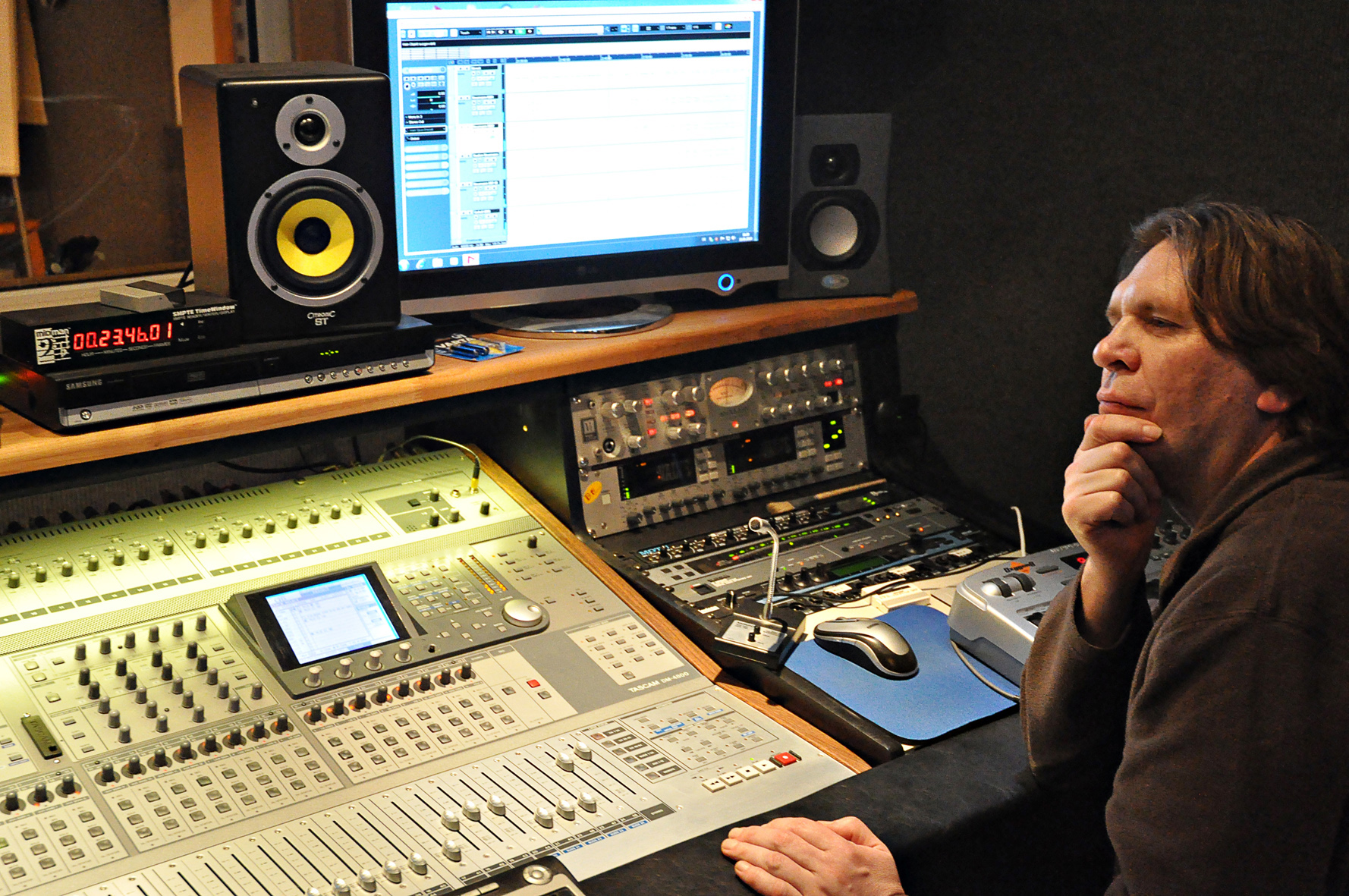 Producer and recording engineer Henno Althoff at his Adalt-Studio in Lippstadt/Germany, recording fingerstyle guitarist Gareth Pearson.